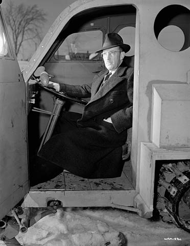 Armand Bombardier poses, seated at the wheel of the Bombardier military snowmobile